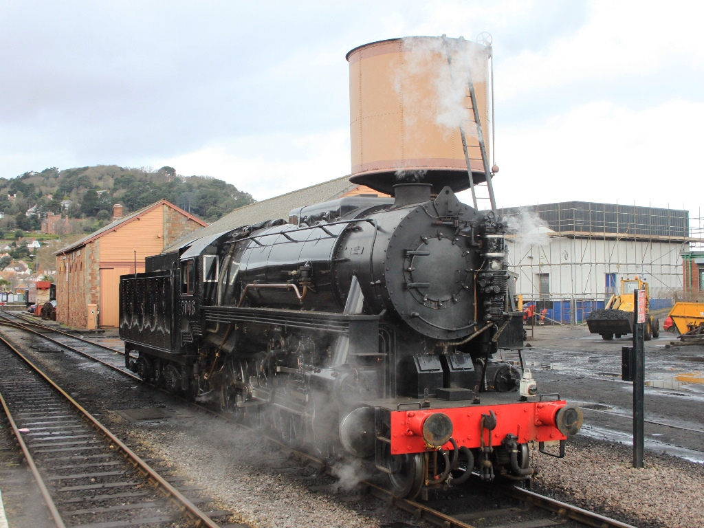 US Army S160 Class 6046 takes on water at Minehead during a visit to the West Somerset Railway.